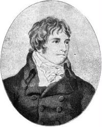 Jan Ladislav Dussek